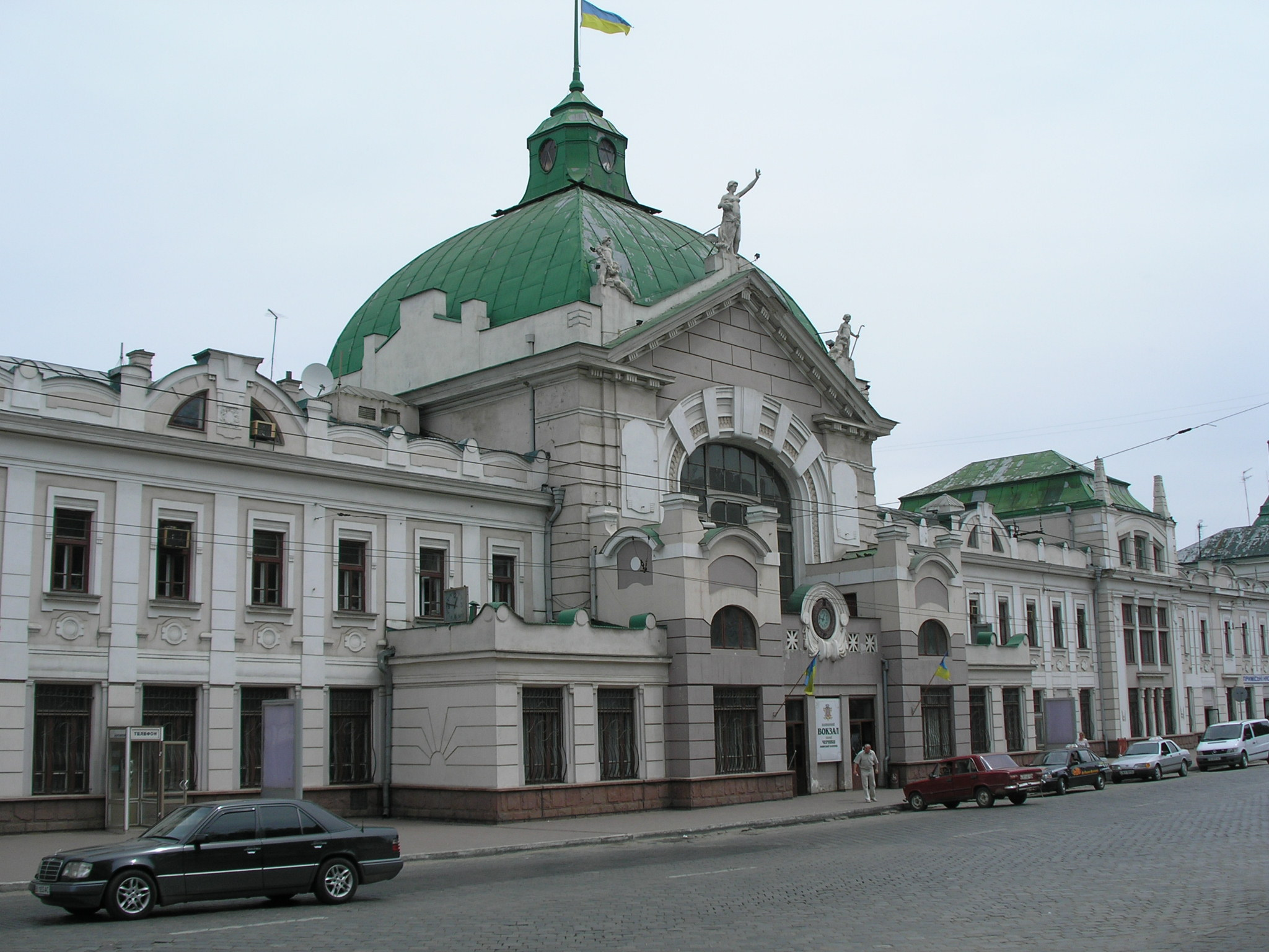 The Chernivtsi Railroad Station, Ukraine